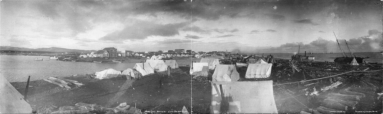 View of Nome, Alaska 1899, two months after gold was found at beach. Apparently at the outlet of Snake River. Tents with chimneies are seen.